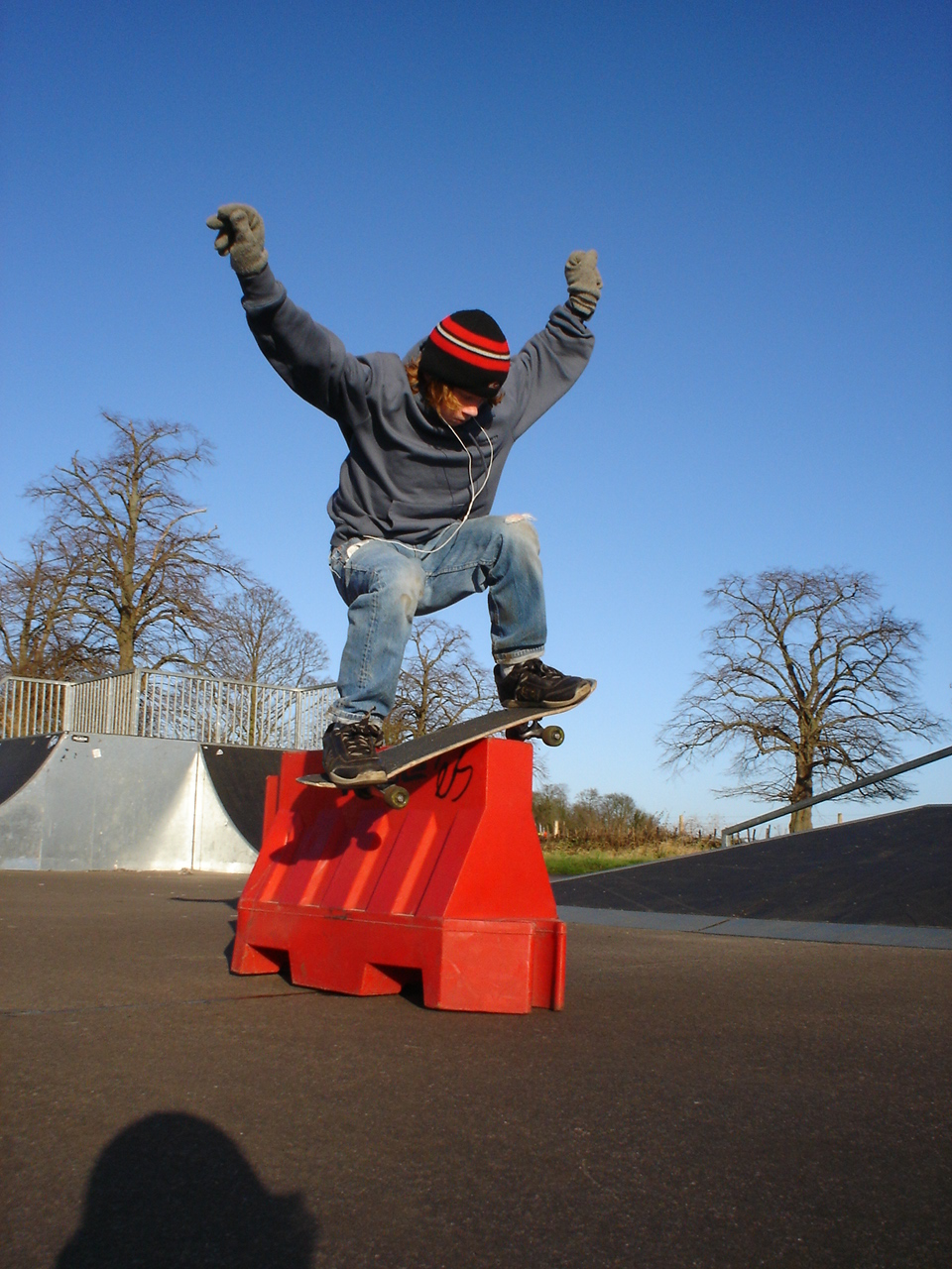 Tommy boardslide on a red thing